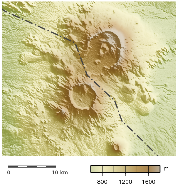 Map of the Nabro Volcano in Eritrea (top) and the Mallahle Volcano in Ethiopia (down)